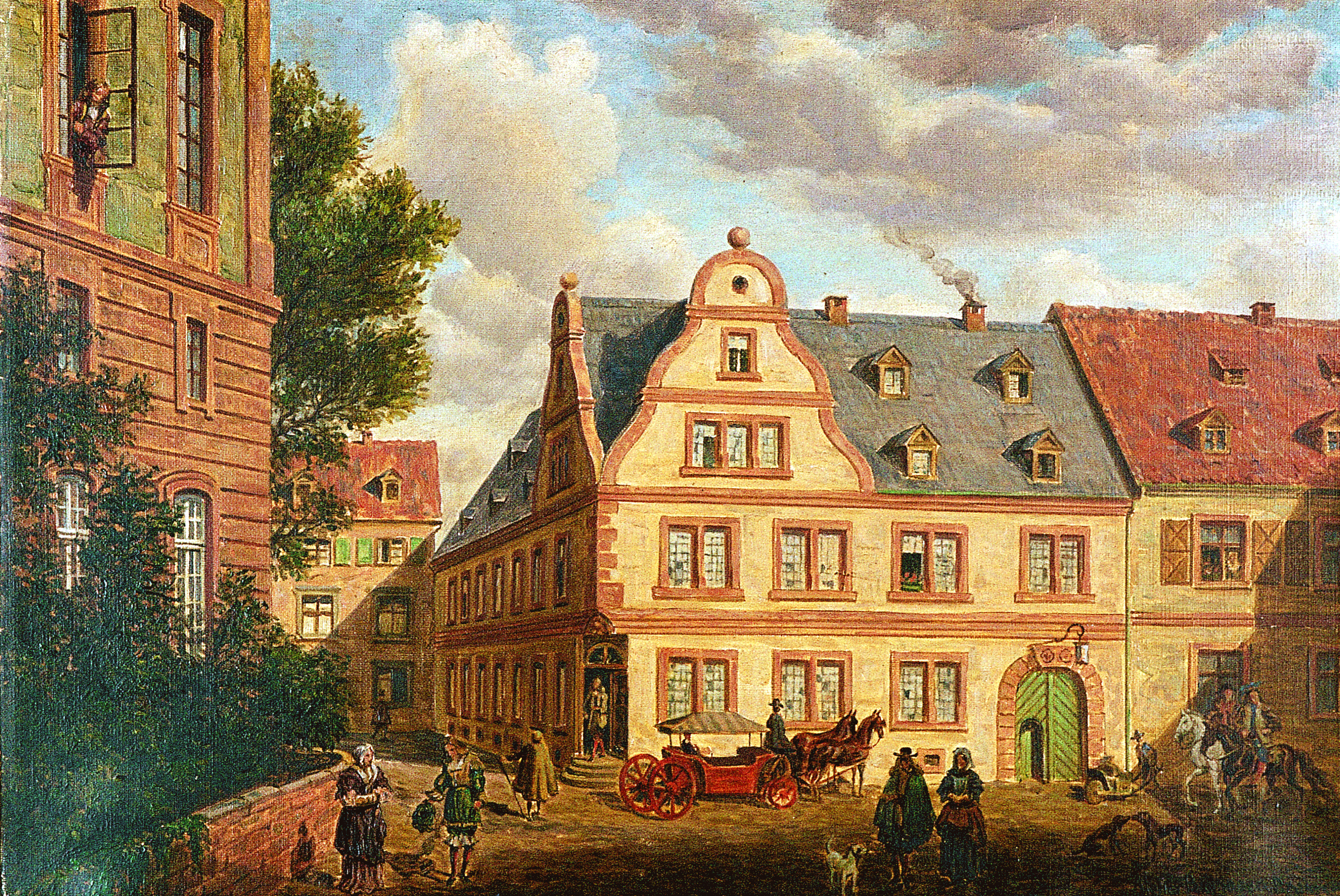 the Engel Apotheke (angel apothecary) is the world's oldest pharmaceutical compa and root of the Merck KGaA